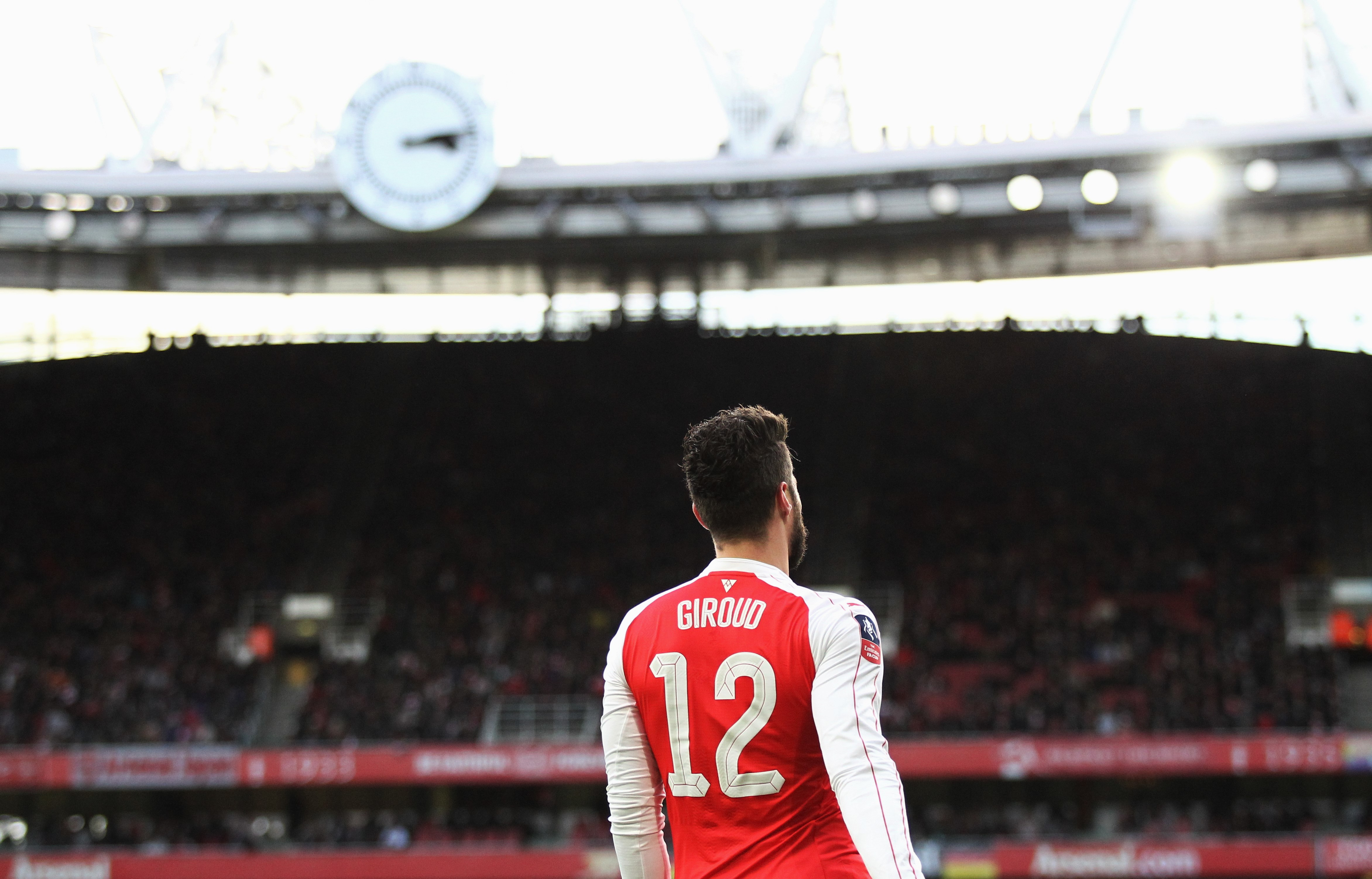 Olivier Giroud of Arsenal during the game against Burnley.